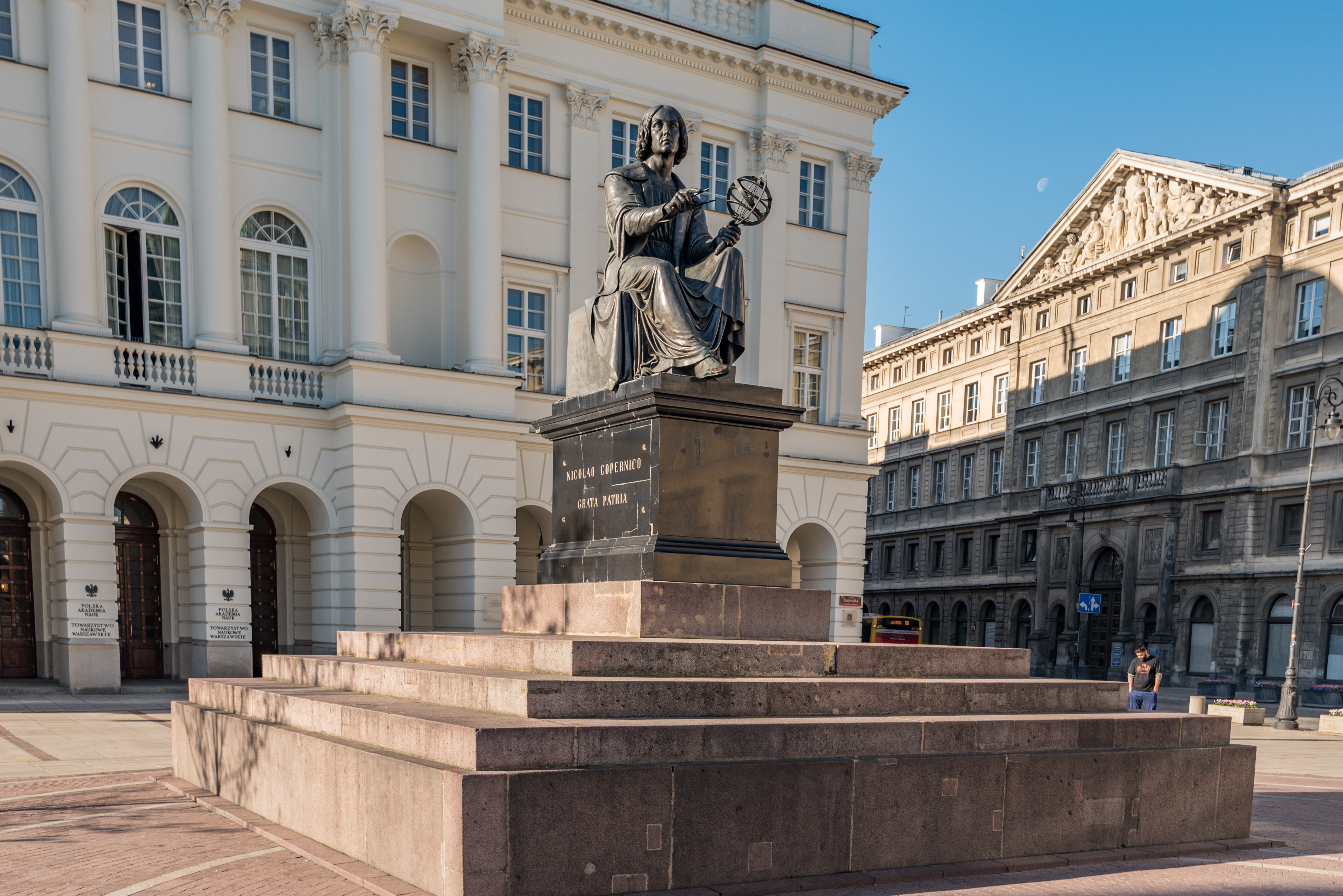 Warszawa, ul. Nowy Świat 72-74